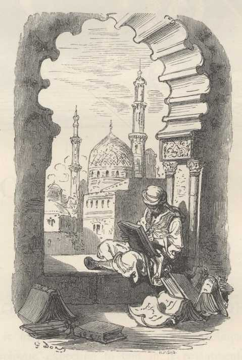 Don Quijote illustrated by Gustav Dore VI.